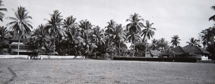 Alun-alun